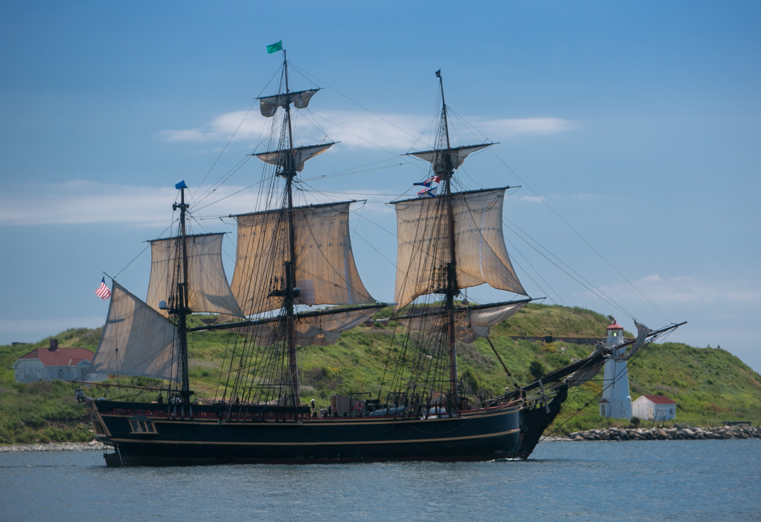 Bounty II, taking part in the Tall Ships Challenge (Atlantic Coast 2012), Halifax